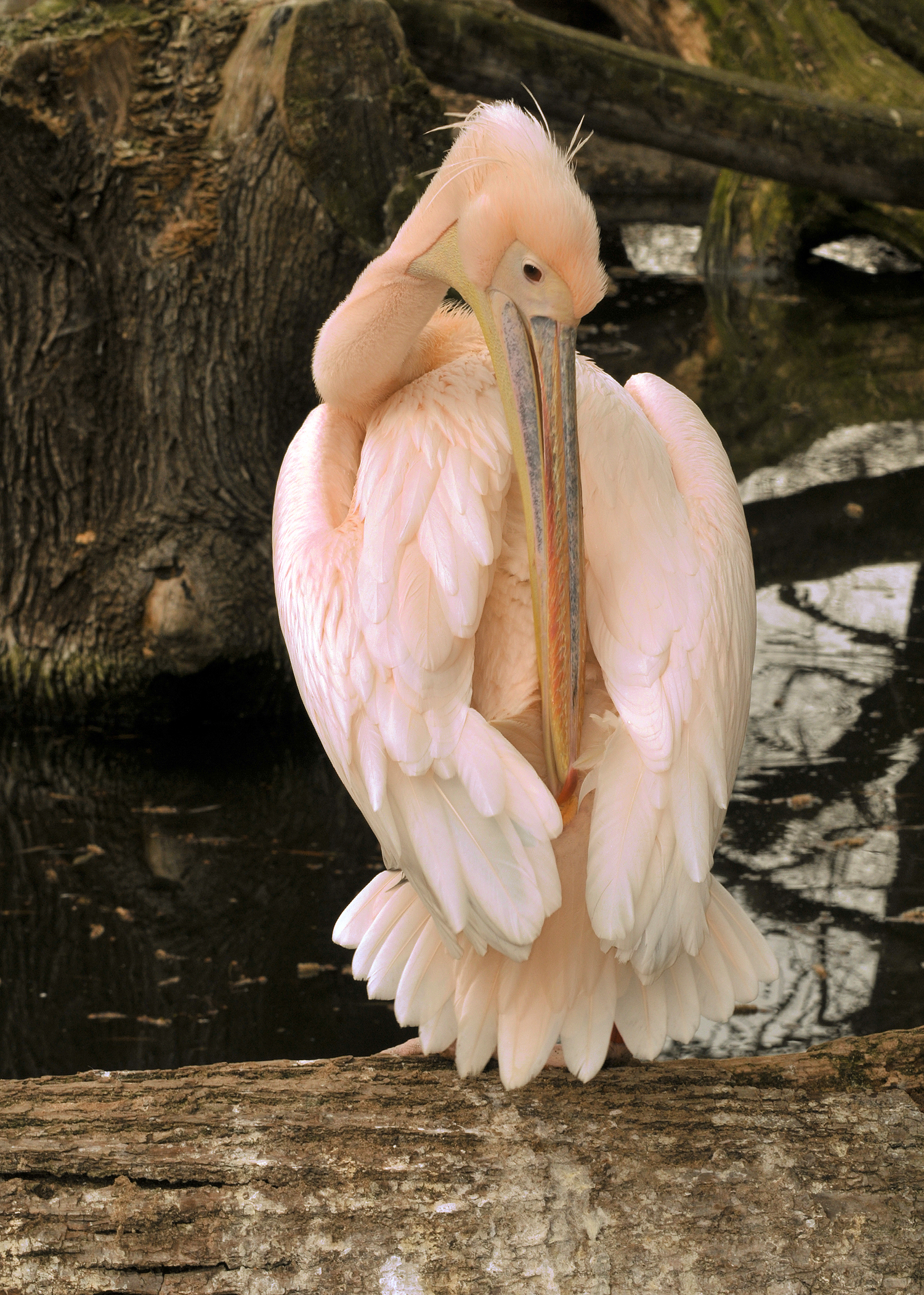 rosy pelican in the Zoo in the city of Dresden in Germany.